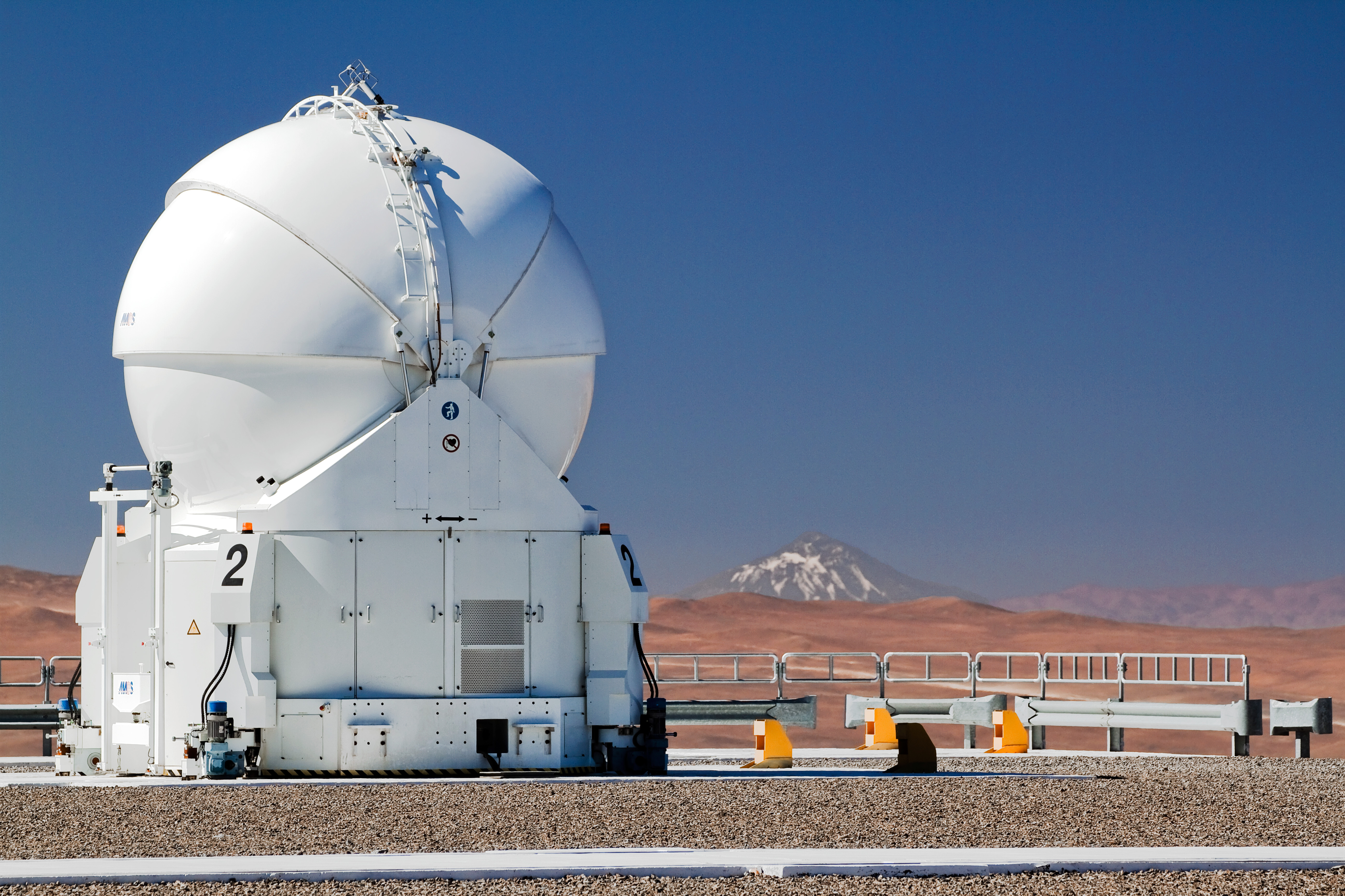 Bathed in the pristine light of the Chilean Atacama Desert, the ESO VLT's Auxiliary Telescope 2 stands on Cerro Paranal. It is one of four that are used with the Very Large Telescope Interferometer. During the day, its bulbous dome is closed, protecting the sensitive telescope within. The magnificent 6739-metre volcano Llullaillaco stands proudly in the background of this photograph. Although it looks relatively close on the horizon, it is actually an incredible 190 kilometres away, on the border with Argentina. That Llullaillaco can be seen so clearly is evidence of the region's unparallelled atmospheric conditions. The clear air is one of the many factors that make this such a wonderful location for astronomical observatories. It is from this excellent vantage point that ESO astronomers study objects that are not just hundreds of kilometres in the distance, but billions of light-years away. This photograph was taken by ESO Photo Ambassador Gianluca Lombardi. Links ESO Photo Ambassadors